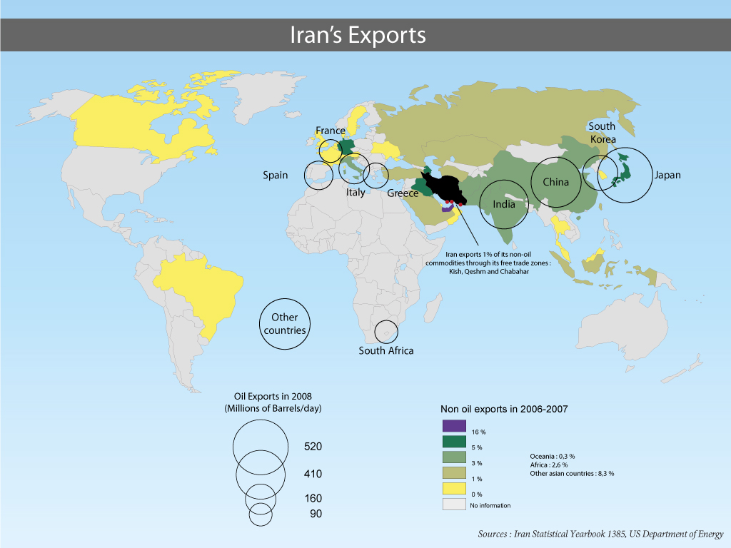 Map of Iran's Exports in 2006-2008.